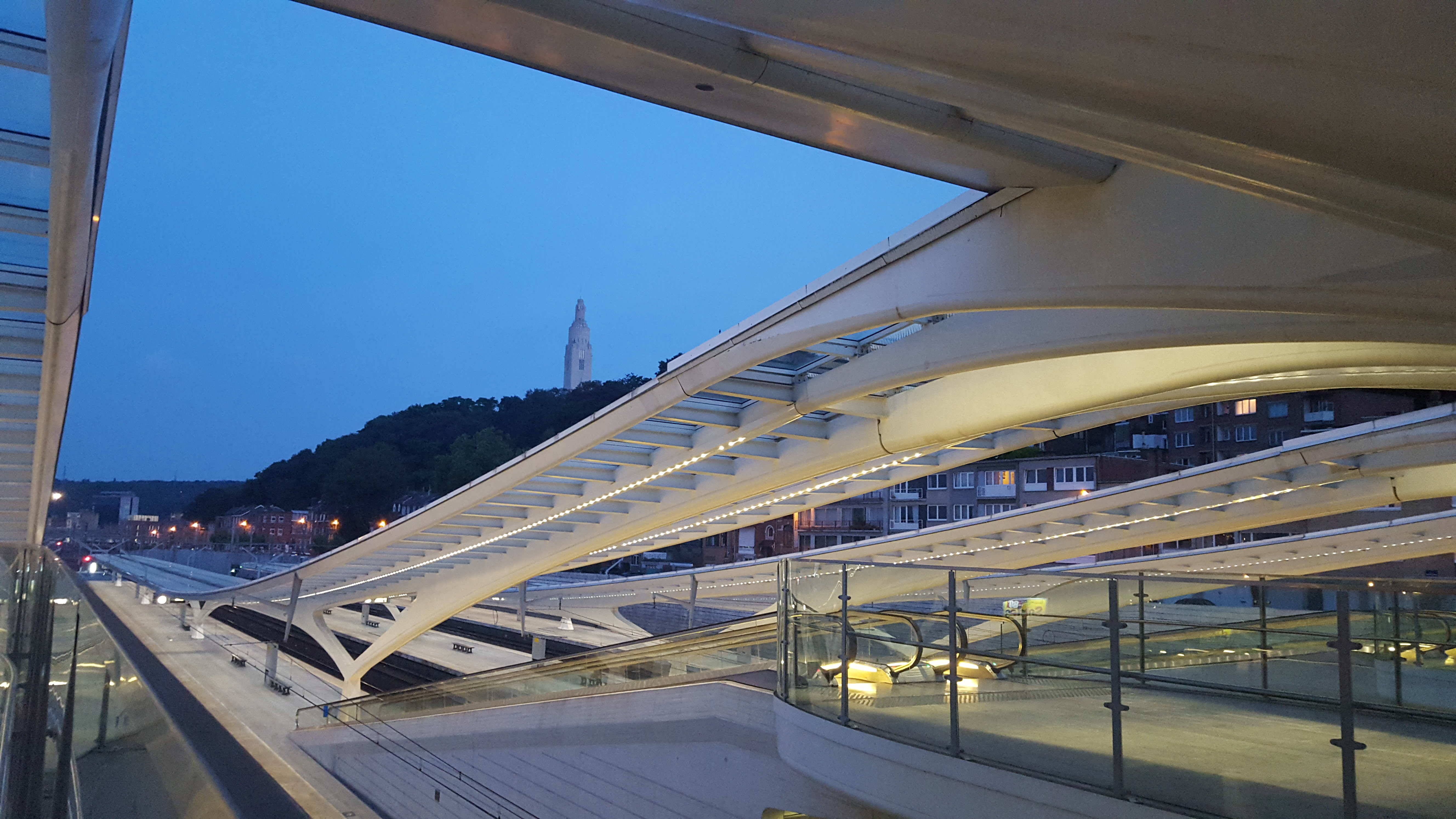 Liège-Guillemins train station, Liège, Belgium